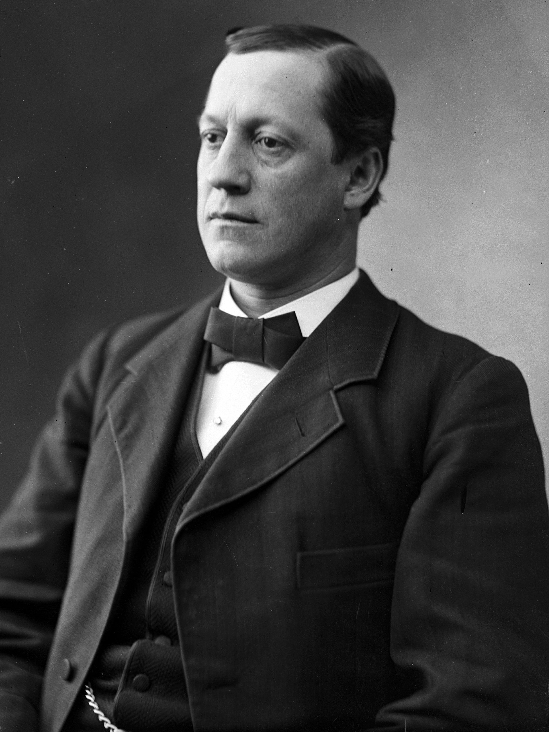 Elizur K. Hart, US Representative from New York